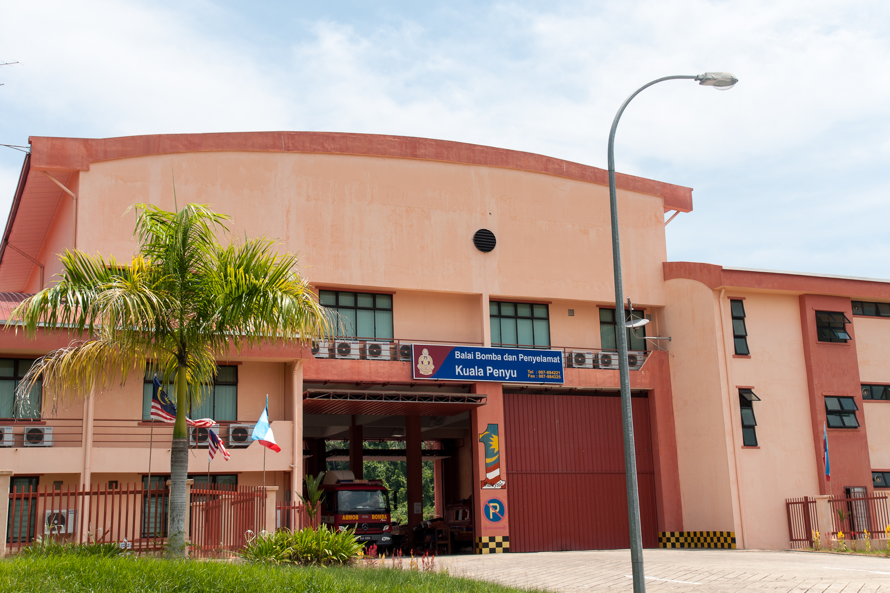 Kuala Penyu; Fire and Rescue Brigade (Balai Bomba dan Penyelamat)